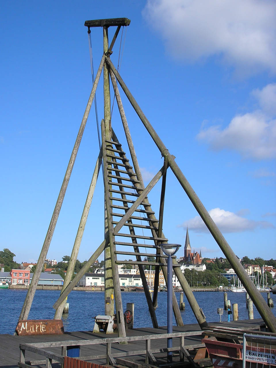 Old port crane in the shipyard museum of Flensburg, Germany